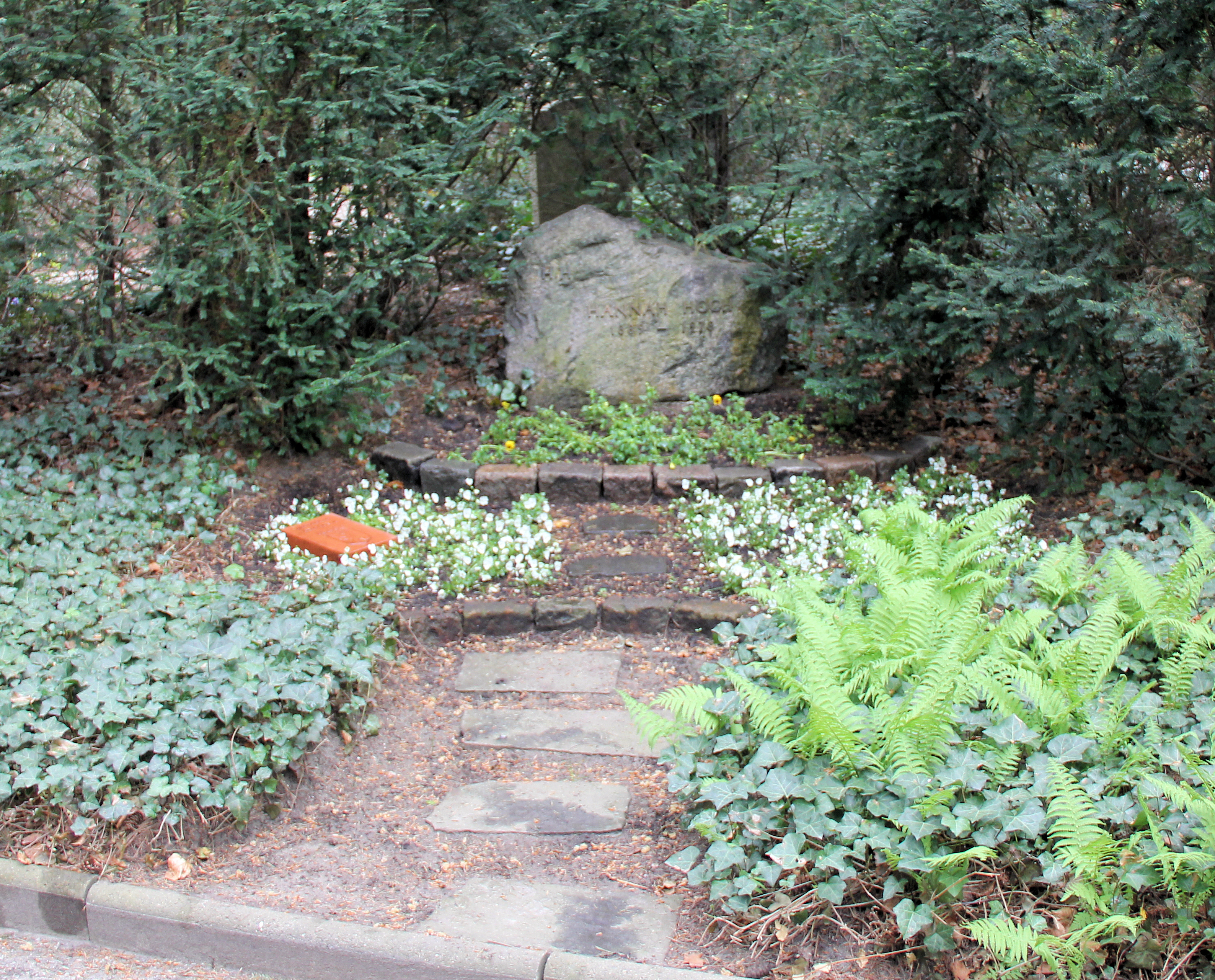 "Ehrengrab" (grave of honor), Hannah Höch, Sandhauser Straße 110, Berlin-Heiligensee, Germany Koordinate:52°35′54″N 13°12′57″E / 52.59833°N 13.21583°E